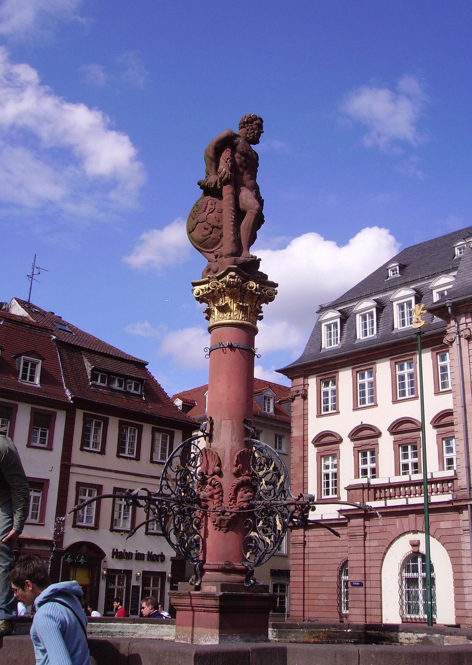 views of Heidelberg, Germany: column